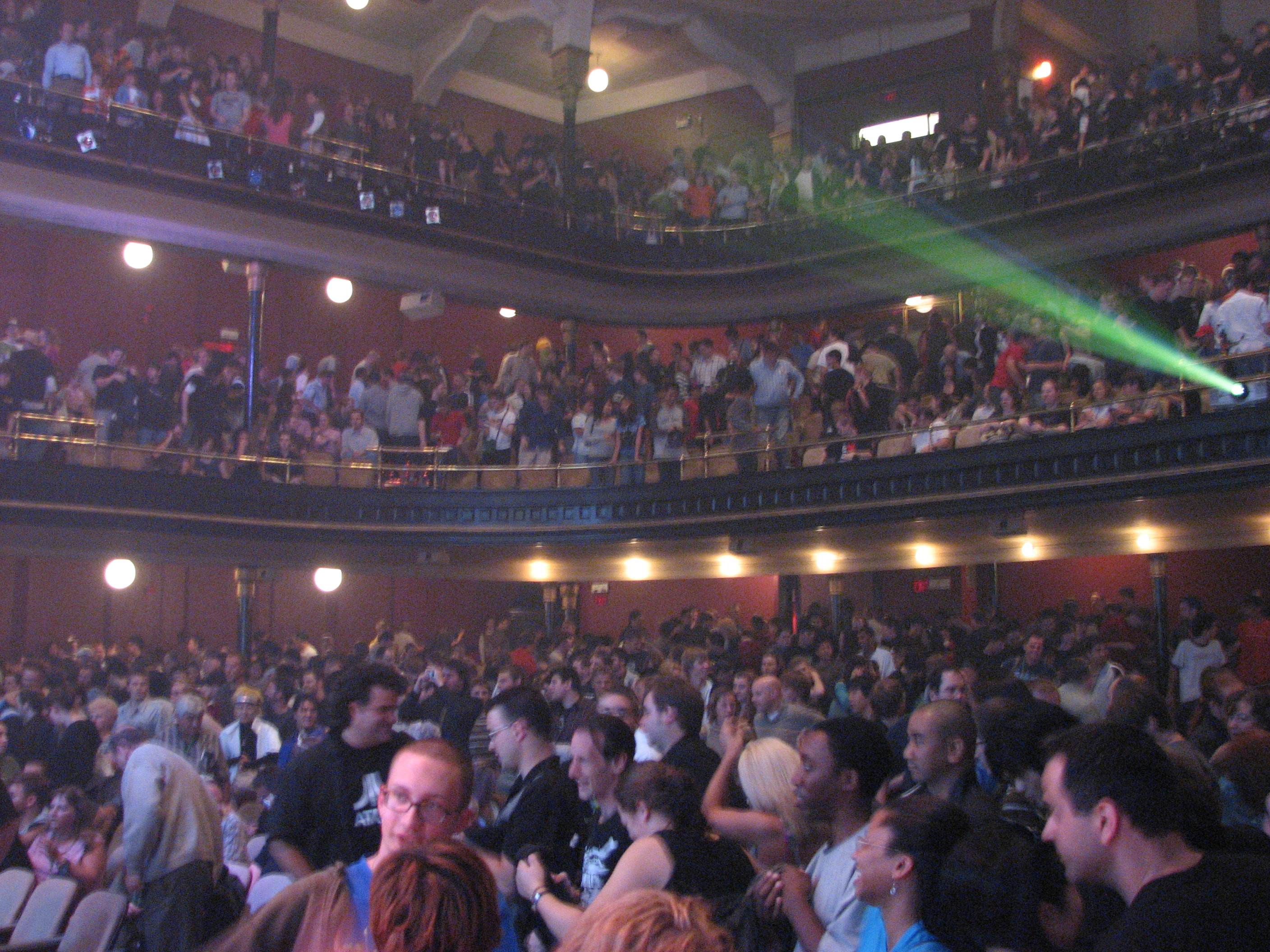 Inside Massey Hall, Toronto, Canada